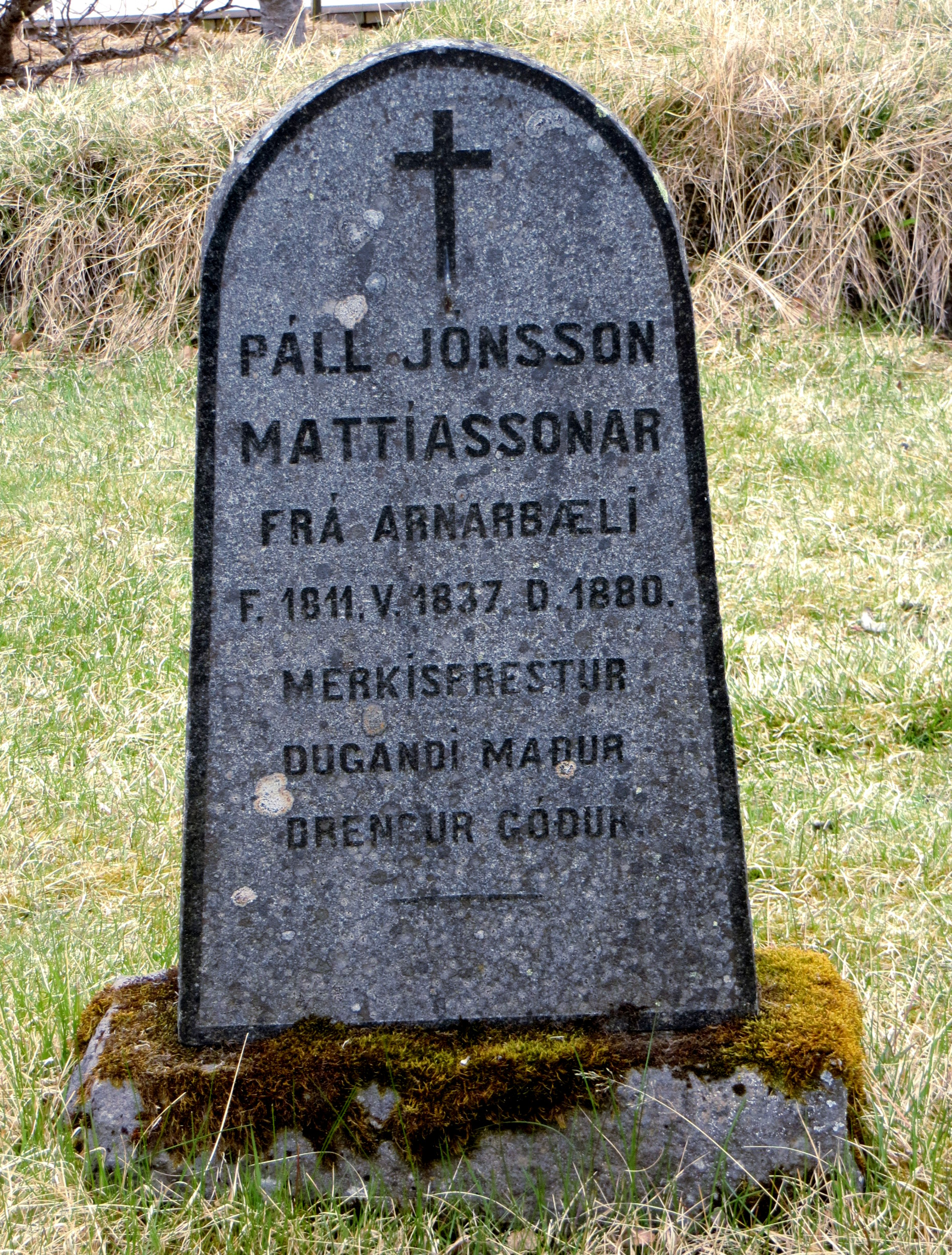 Gravestone of Páll Jónsson (1811-1880) with the avonymic Mattíassonar